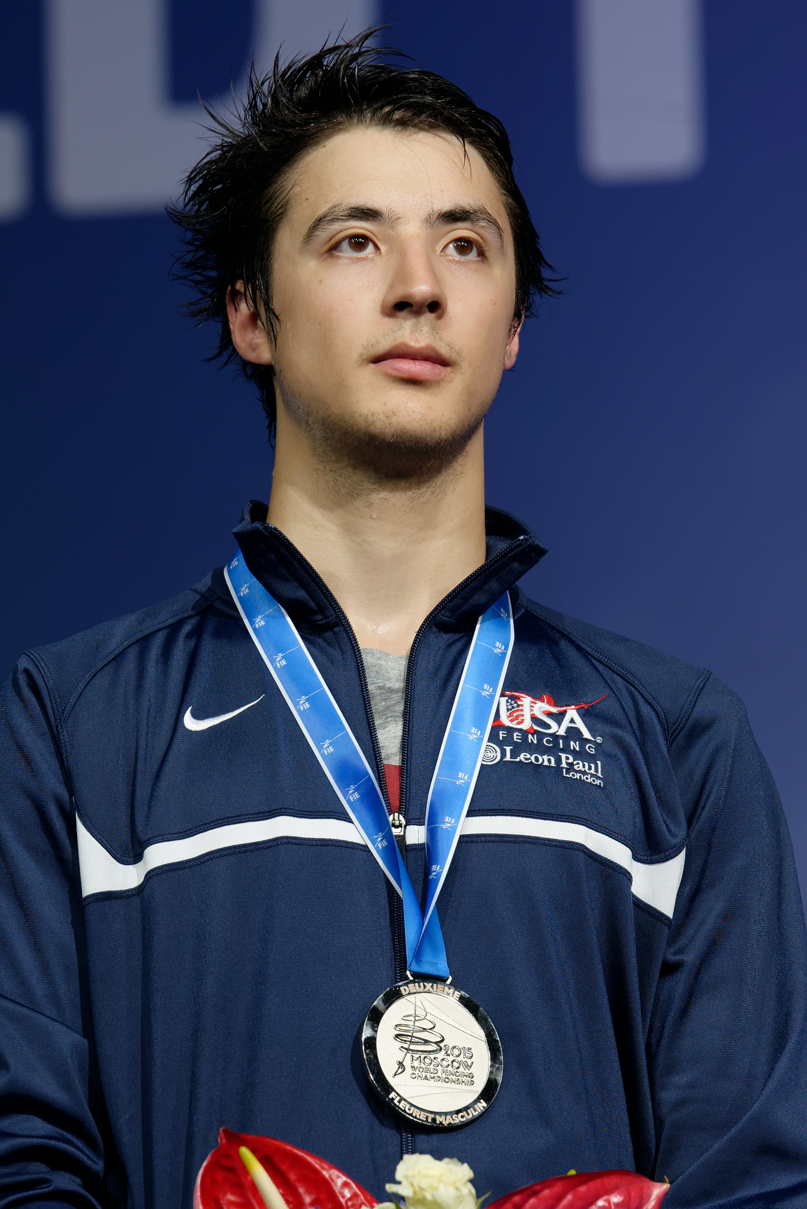 The United States' Alexander Massialas at the medal ceremony for the men's foil event at the 2015 World Fencing Championships on 16 July 2015 at the Olympic Stadium in Moscow.